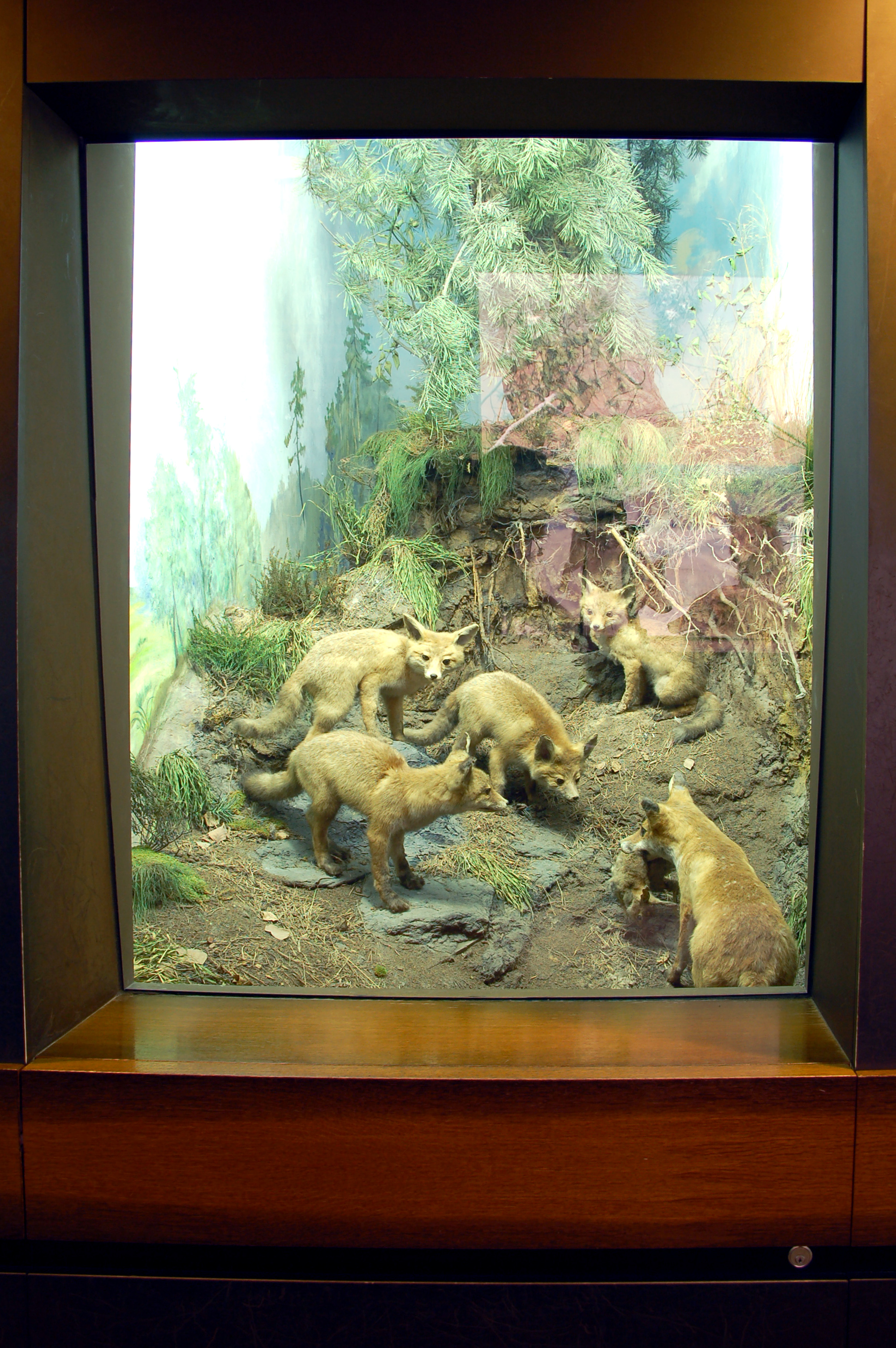 Diorama with foxes in the Senckenberg Museum in Frankfurt am Main